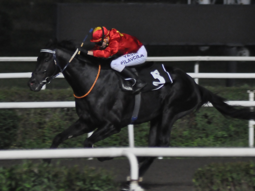 Turkish Jockey Yasin Pilavcılar